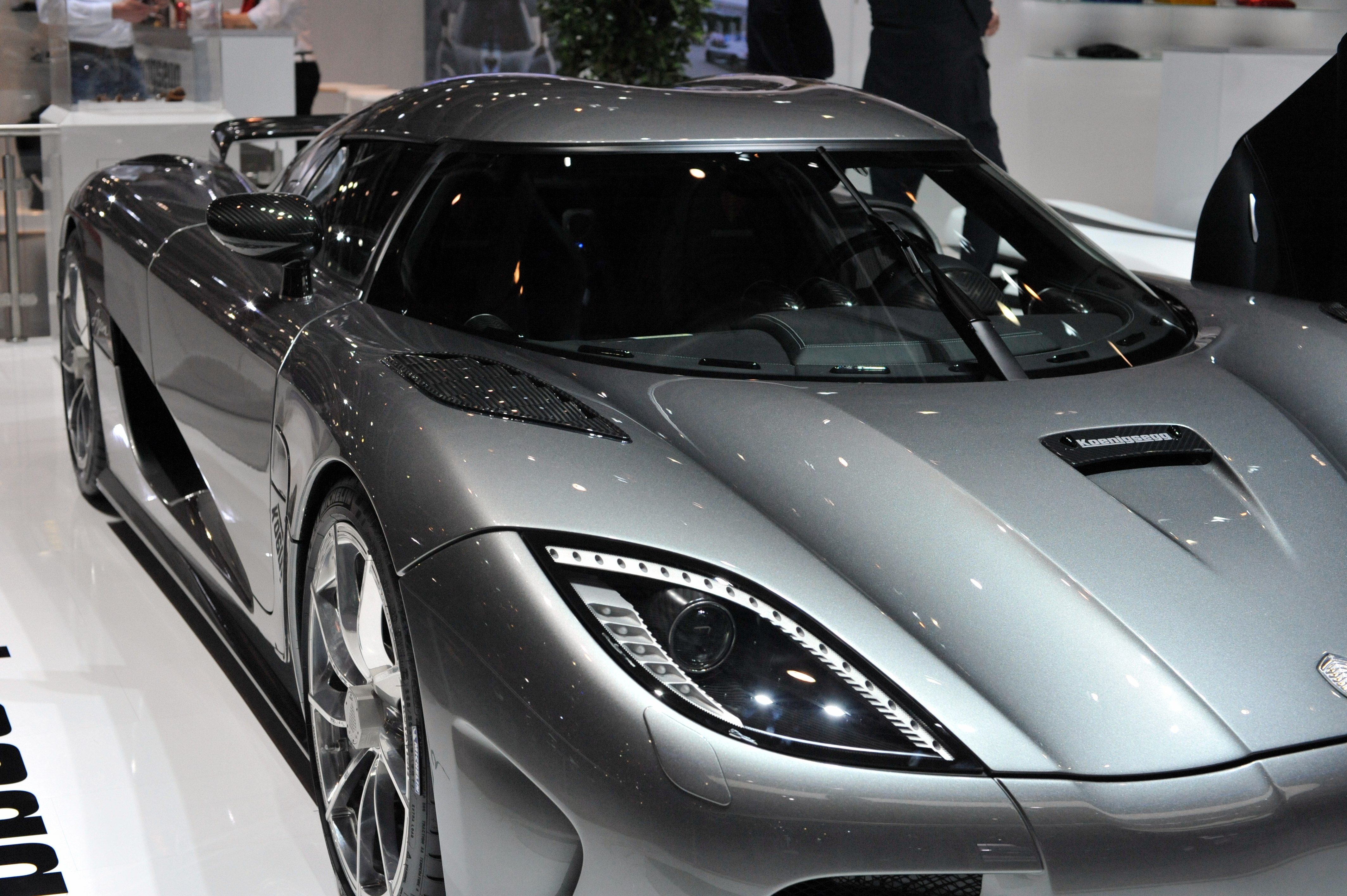 Koenigsegg on display at the Salon Geneva Auto Show 2011